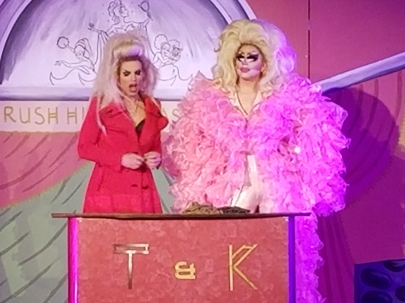 Katya Zamolodchikova and Trixie Mattel in Peaches Christ's Trixie and Katya's High School Reunion at the Castro Theatre in San Francisco, California, United States